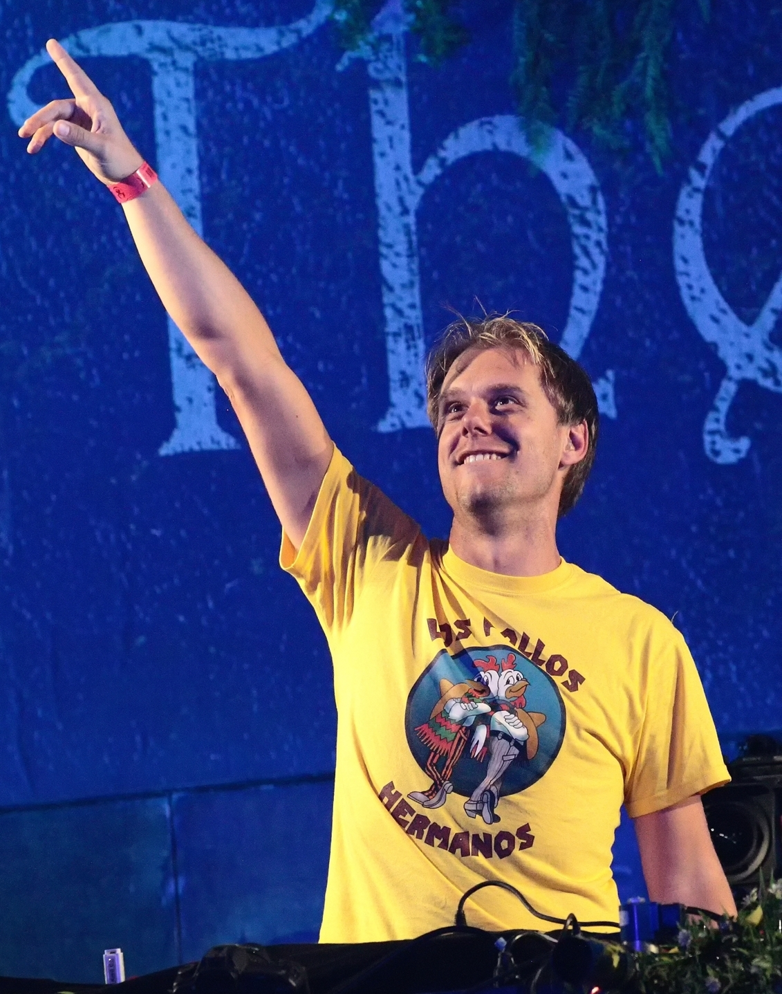 Armin van Buuren at TomorrowWorld 2013.